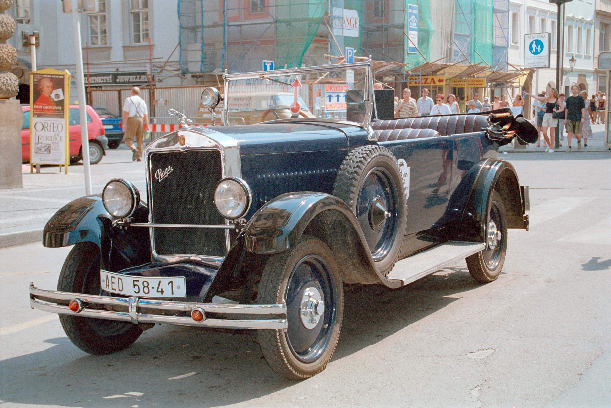 czech oldtimer "Praga", most probably Praga alfa (compared with the pictures already in the gallery) own picture, taken in 1998